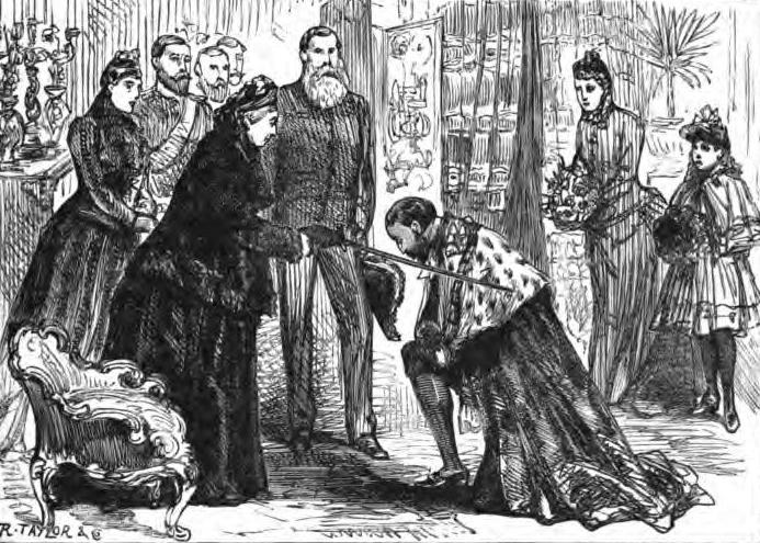 Derbyshire Royal Infirmary the reward for Sir Albert Seale Haslamas he is knighted as Mayor of Derby in 1891 on the day of the Queens visit. From the book of the day (seems to have more hair!)